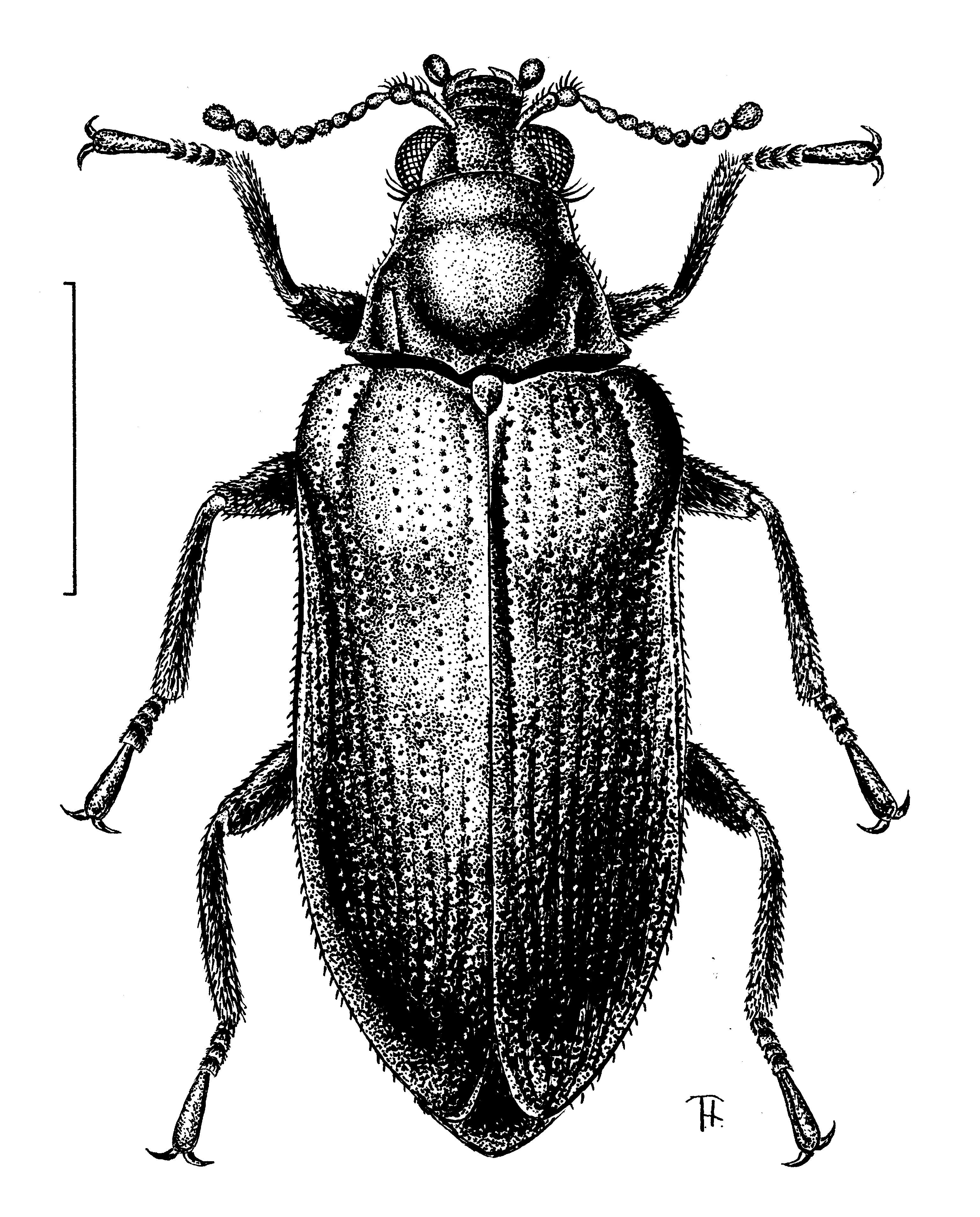 (Coleoptera: Elmidae) Hydora picea illustrated by Des Helmore. [No! This illustration is by A.C. Harris!]